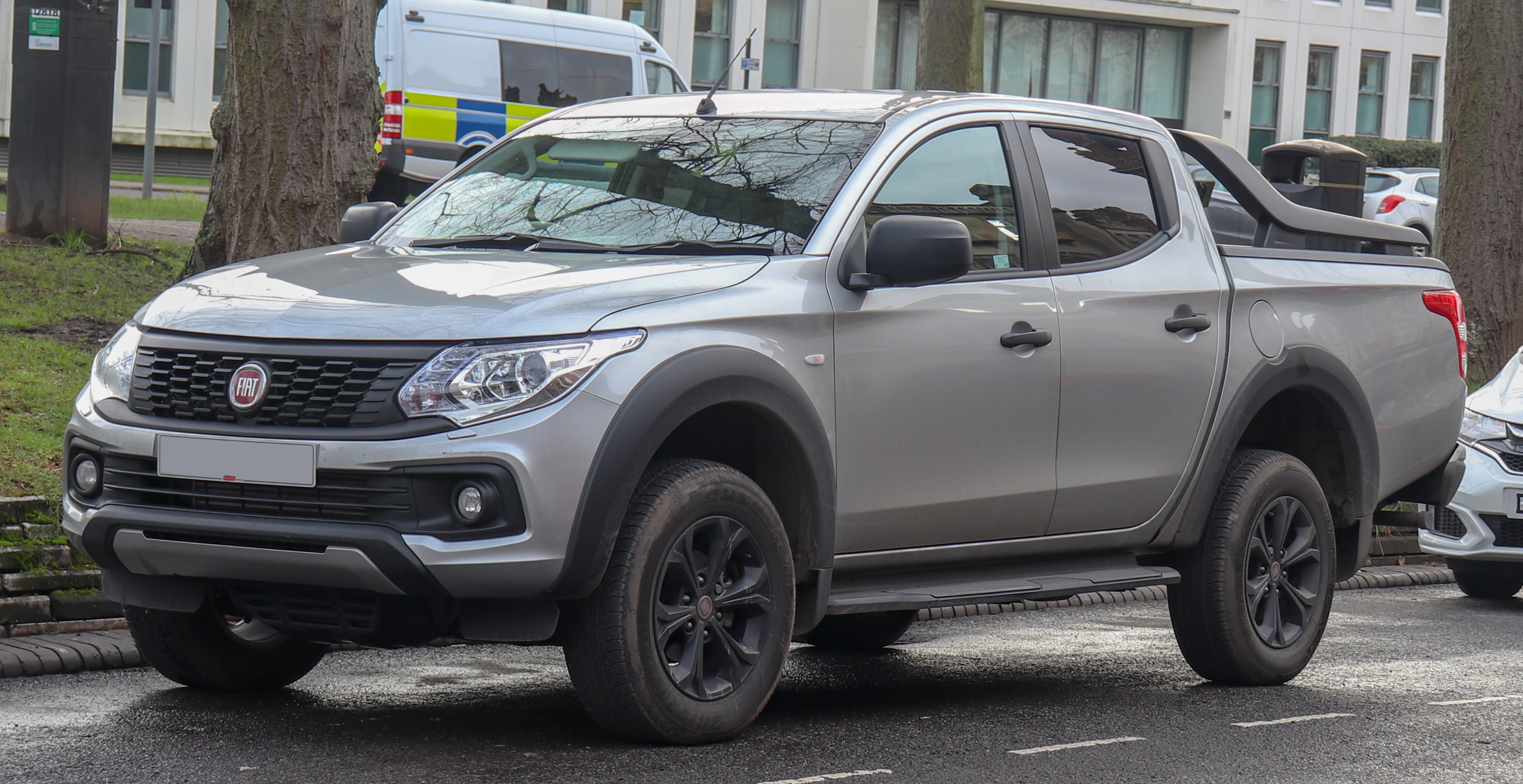 2018 Fiat Fullback Cross 4X4 Automatic 2.4 Front Taken in Leamington Spa